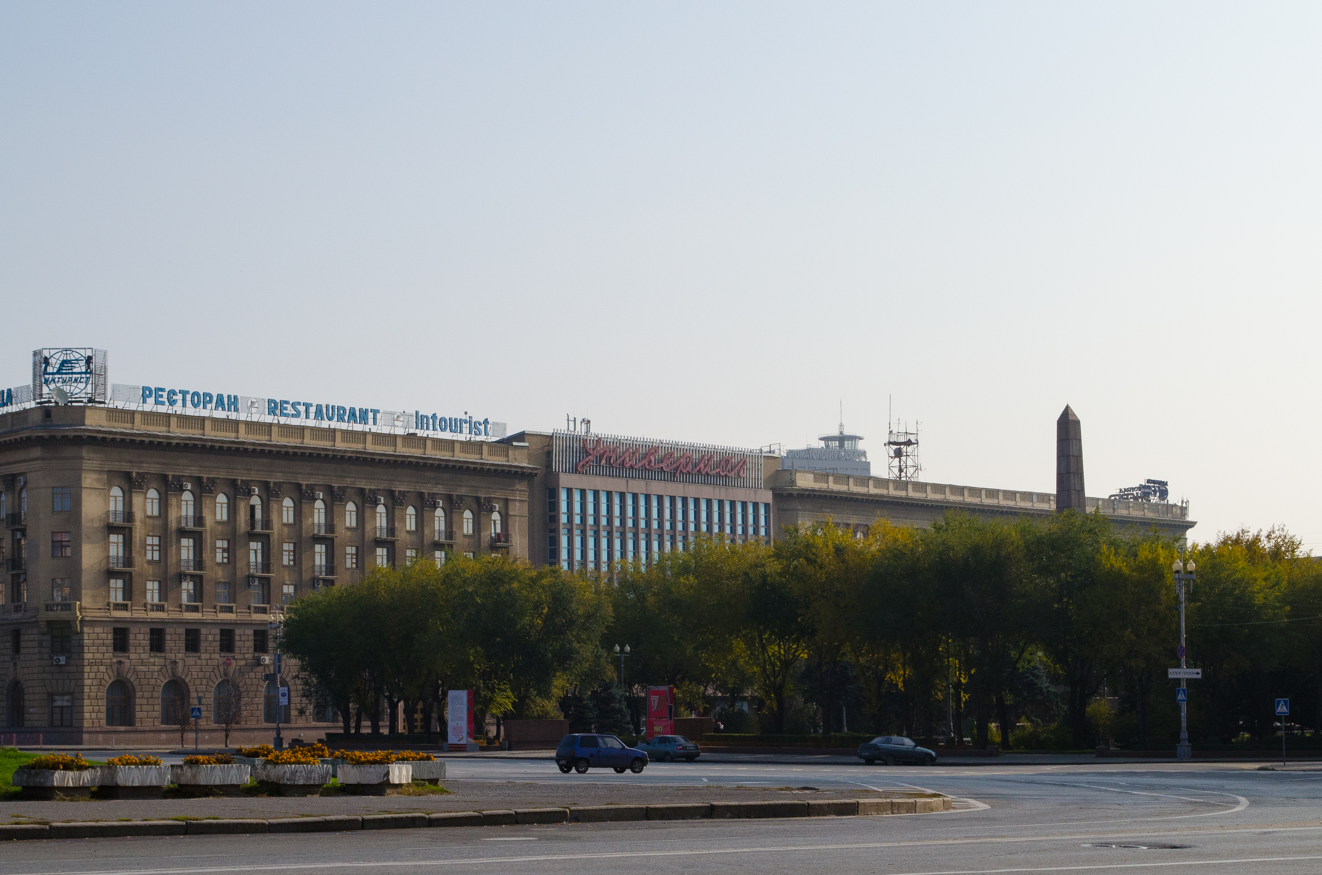 Hotel "Inturist", Univermag and park on square of Fallen Fighters